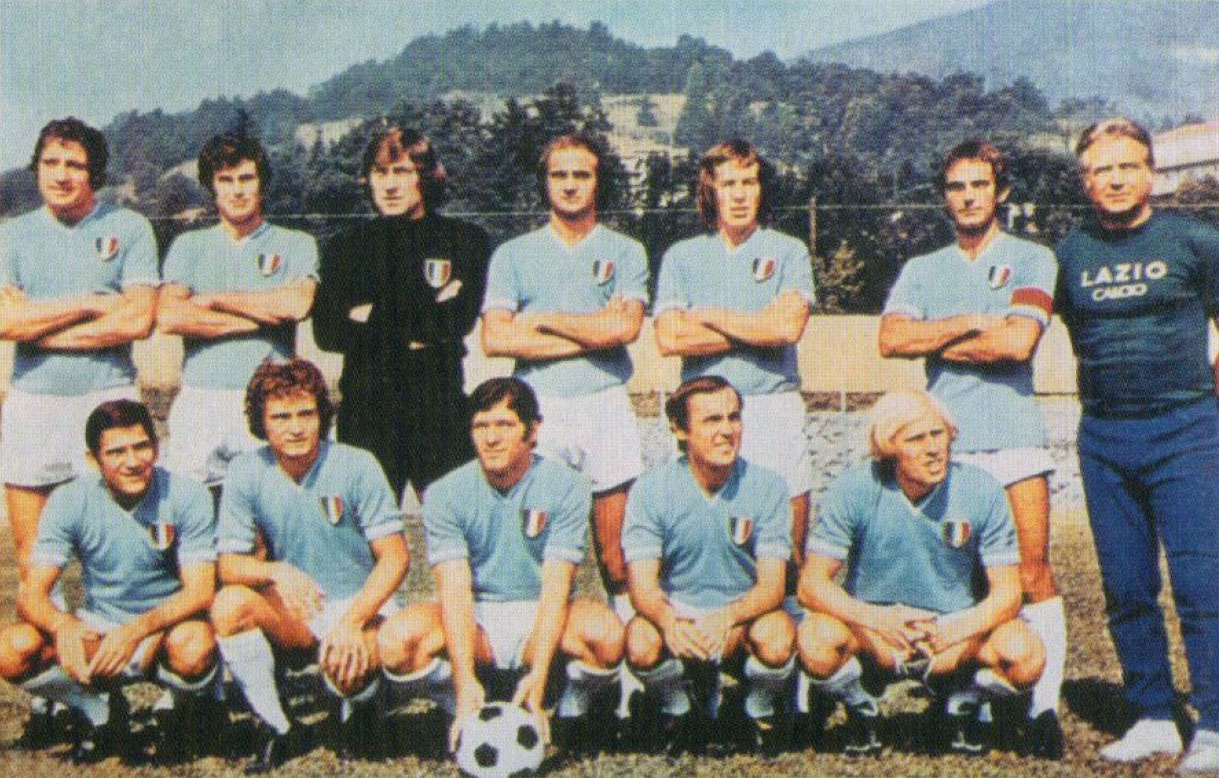 A line-up of S.S. Lazio in the 1974–75 season. From left to right, standing: G. Chinaglia, S. Petrelli, F. Pulici, L. Martini, G. Oddi, G. Wilson (captain), T. Maestrelli (coach); crouched: R. Garlaschelli, V. D'Amico, F. Nanni, M. Frustalupi, L. Re Cecconi.